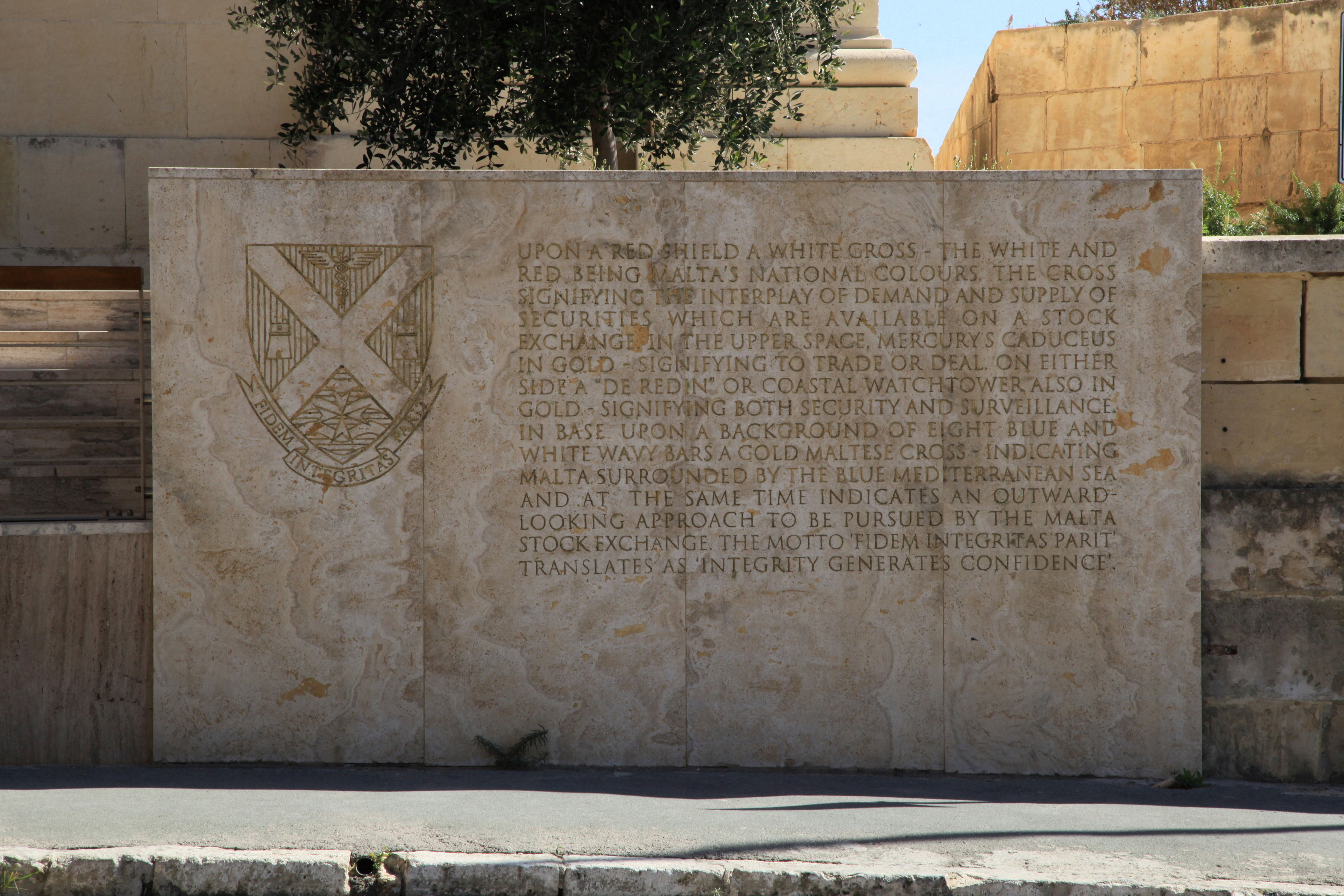 The Malta Stock Exchange (Borza ta' Malta) at Pjazza Kastilja in Valletta, Malta